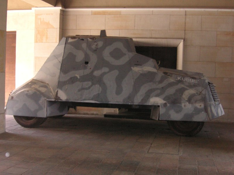 made during a summer day in Warsaw; Polish WWII APC/AC Kubuś, the restored original Based on Chevrolet model 157 car, made in Warsaw in 'Lilpop, Rau & Loewenstein' factory